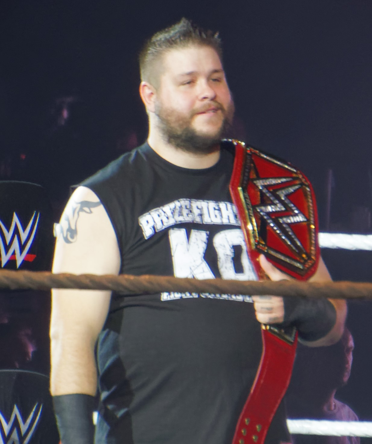 Kevin Owens as Universal Champion in September 2016